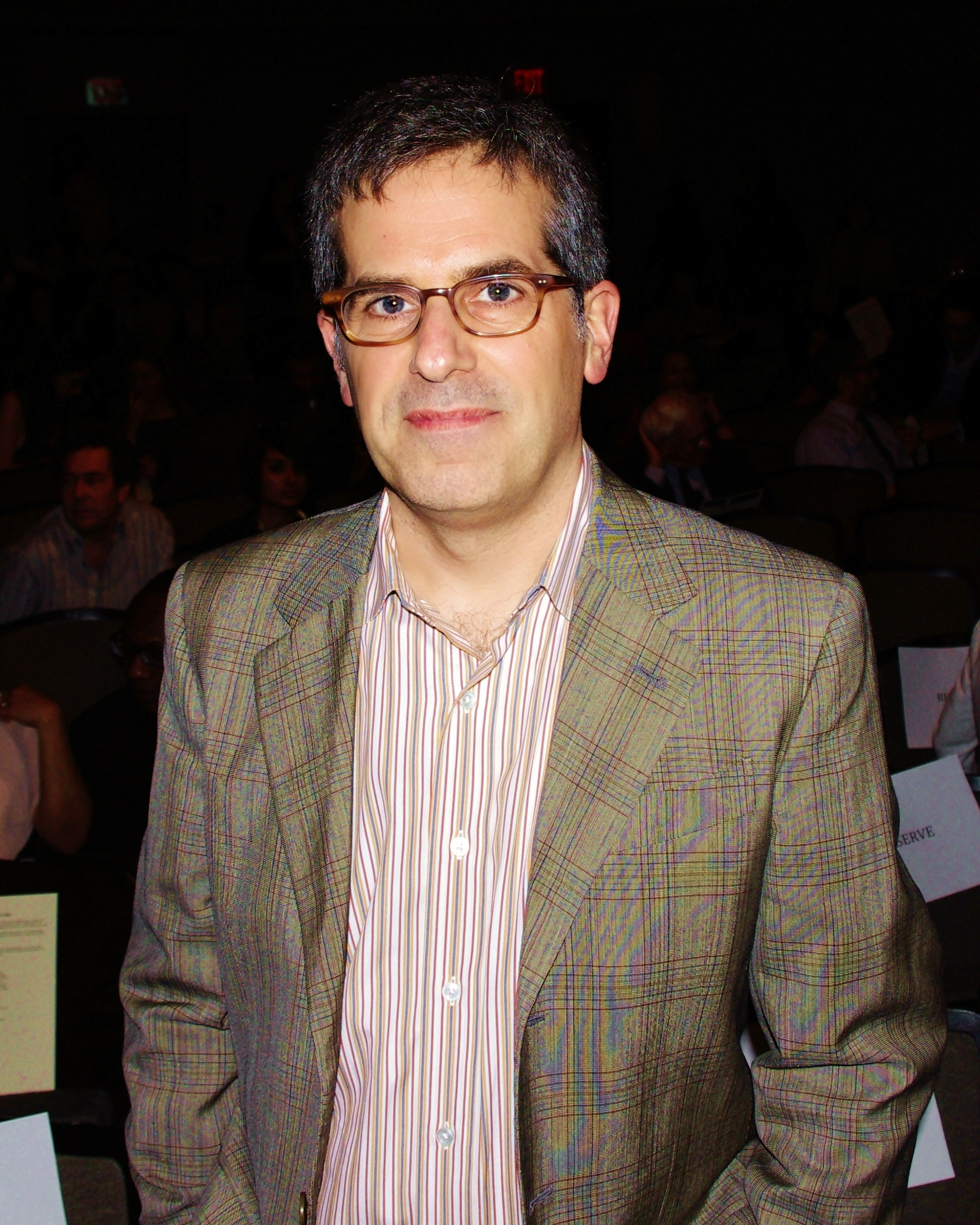 Jonathan Lethem at the National Book Critics Circle Awards.